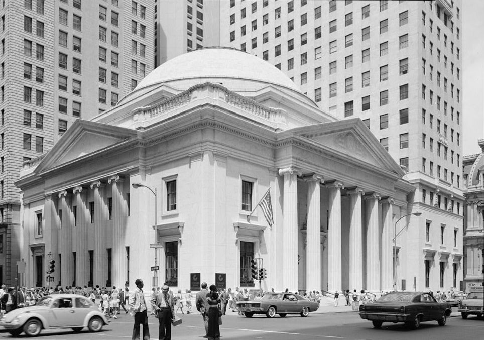 Girard Trust Corn Exchange Bank, Broad & Chestnut Sts., Philadelphia, PA See: Stephen Girard and Frank Furness [now part of The Ritz-Carlton Philadelphia]